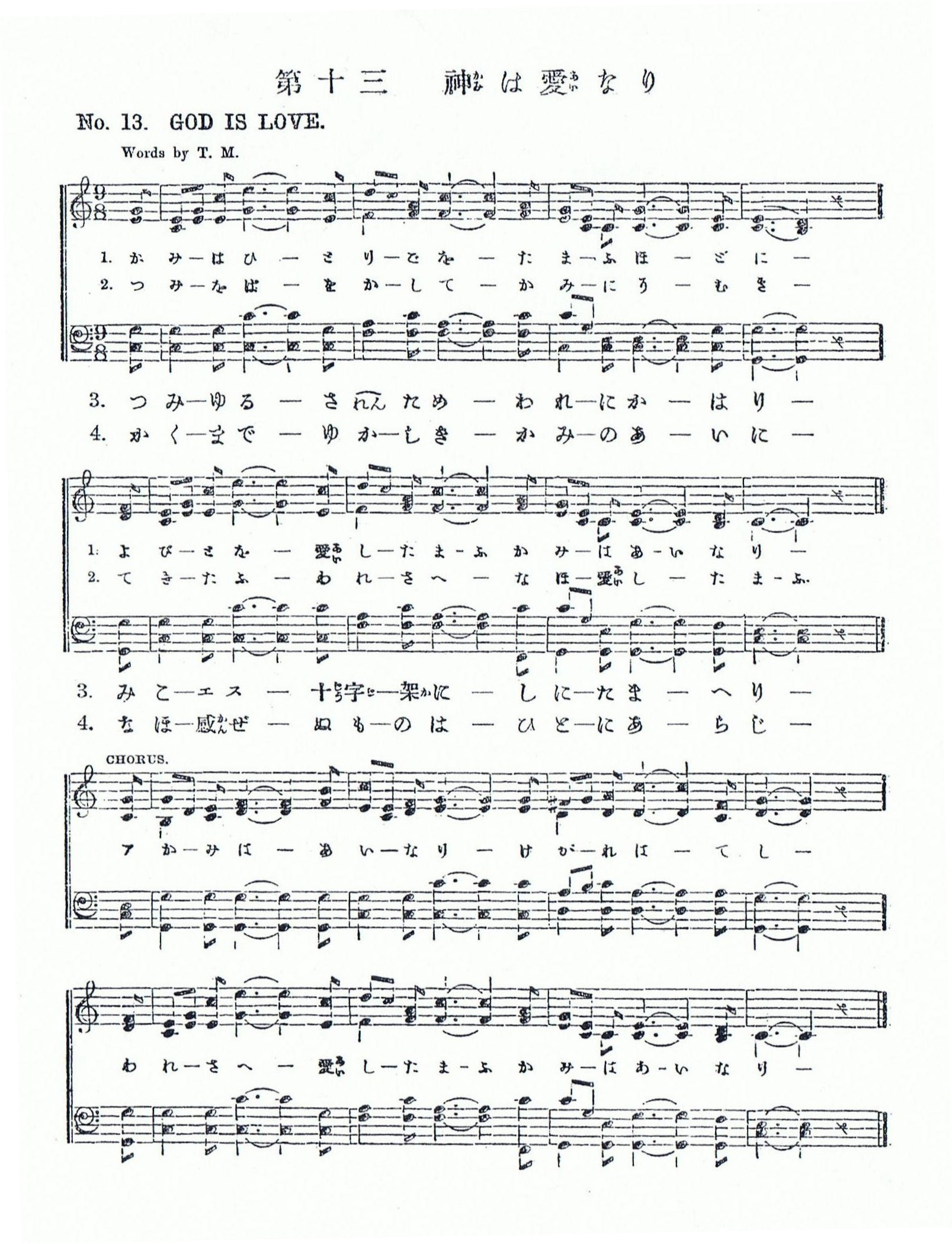 GOD IS LOVE